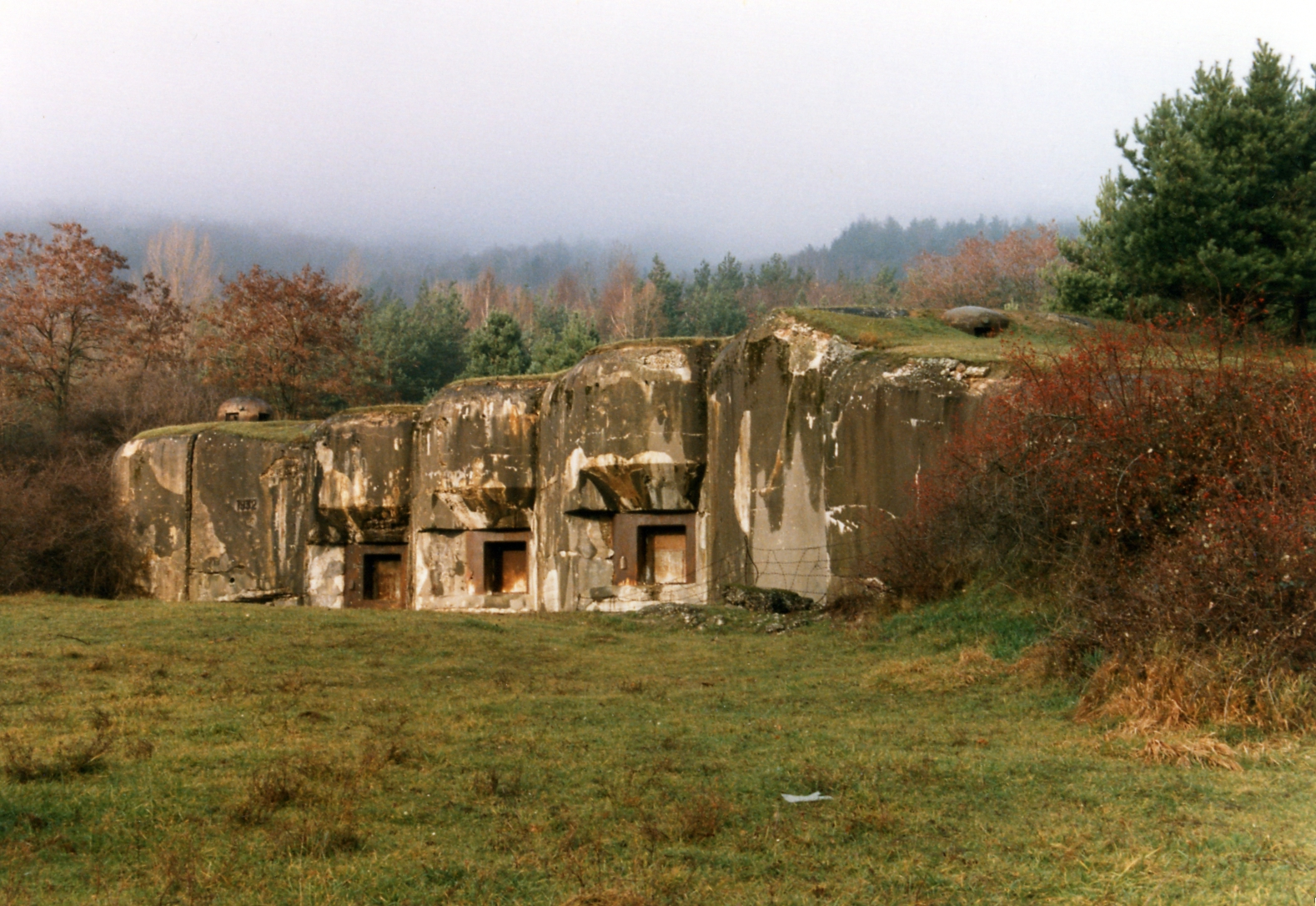 Maginot Line - Ouvrage Hochwald (Lower Rhine, France), Block 6. Artillery casemate block for 3 75mm model 29 guns